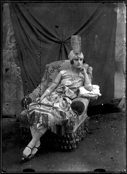 Portrait of a woman dressed in carnival attire. Glass plate (178x128 mm) Bitola, before 1940 This media file is produced by Wikipedian in Residence in Category:Wikipedian in Residence at DARM in 2016.